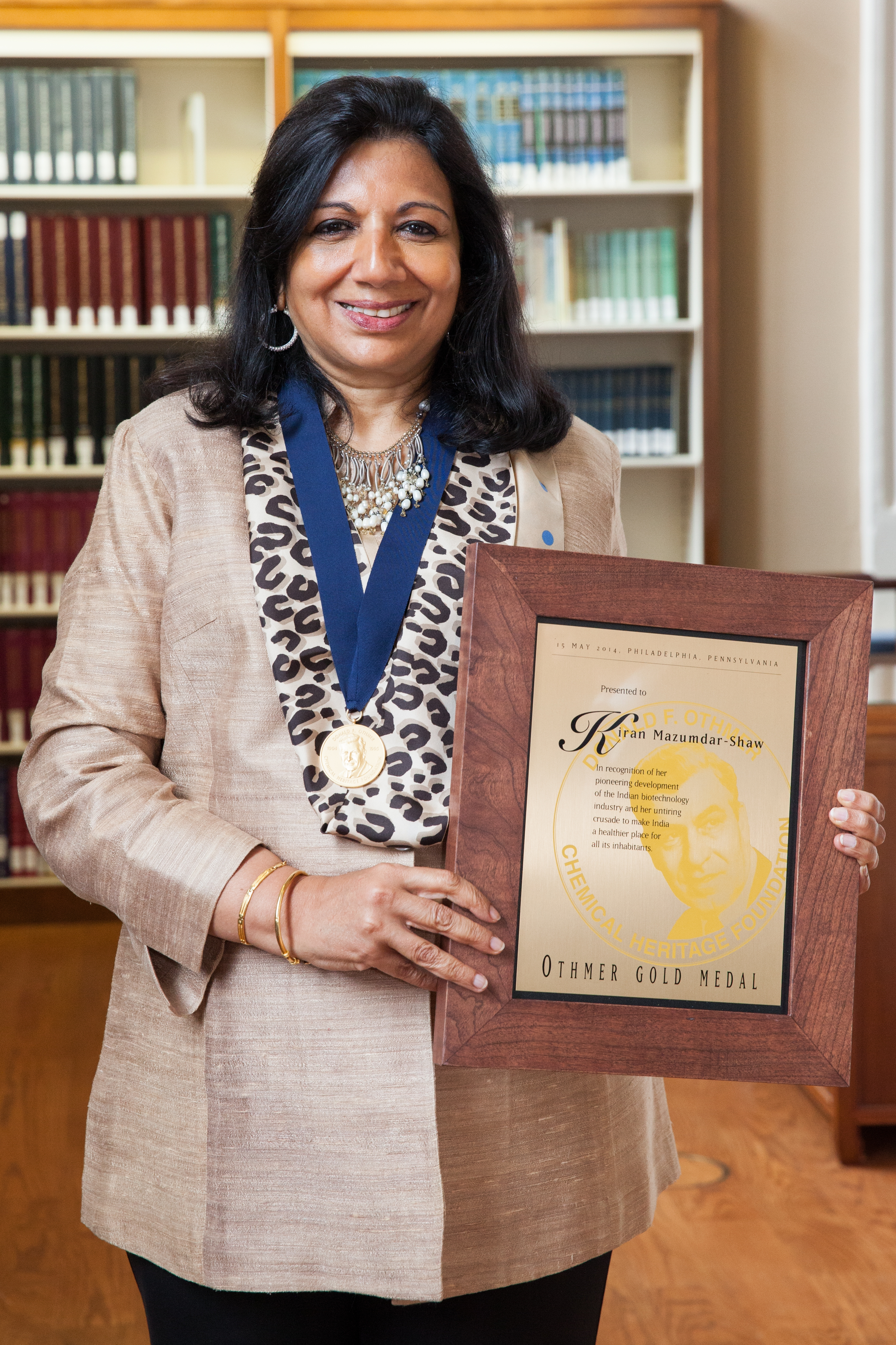 Photograph of Kiran Mazumdar-Shaw, chemist and recipient of the 2014 Othmer Gold Medal, taken at the 2014 Heritage Day, 15 May 2014, Chemical Heritage Foundation, Philadelphia, PA, USA.